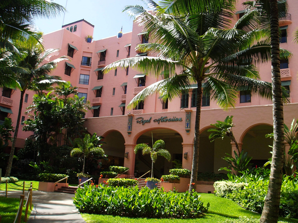 Starwood Sheraton Royal Hawaiian Hotel